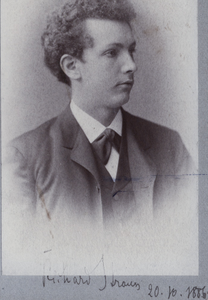 Photo of Richard Strauss, dated 20.10.1886 (Oct 20 1886)